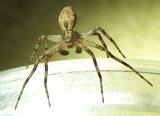 Male of unknown spider species, very probably family Philodromidae. Reared on Drosophila melanogaster for two instars in Cologne, Germany. Spiderling was caught indoors around October/November. Body length is about 4 mm. It was trying to hit higher ground, lifting its behind in the air with several long threads of silk extruding.